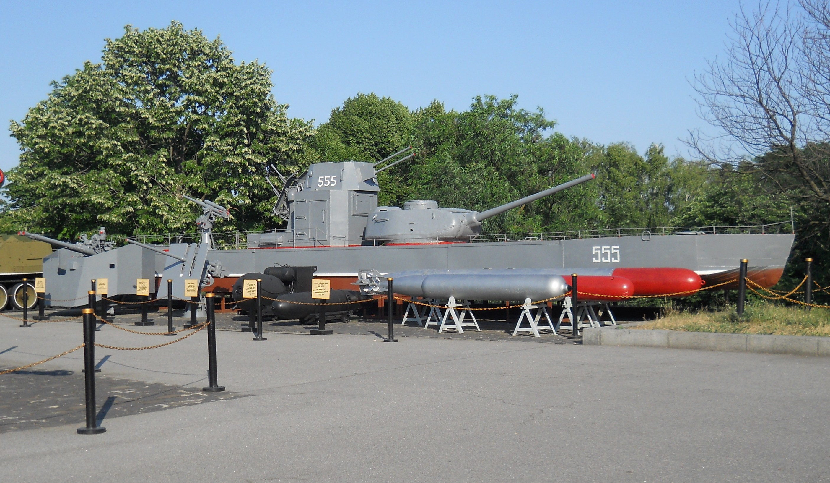 Category of monuments of the project 1125, BK-1 (No.1) class armoured boats in Kiev, Ukraine.